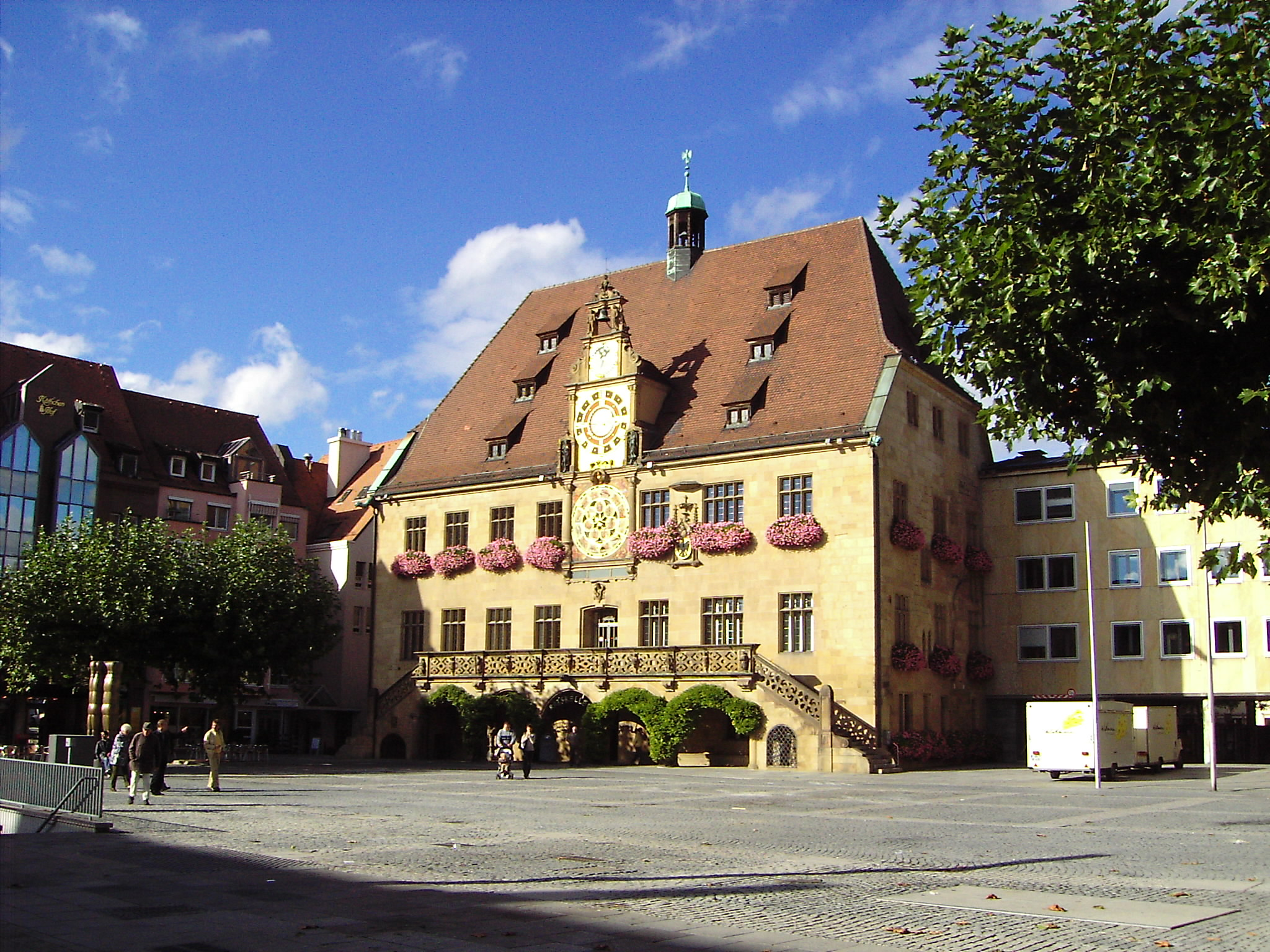 Town hall of the City Heilbronn